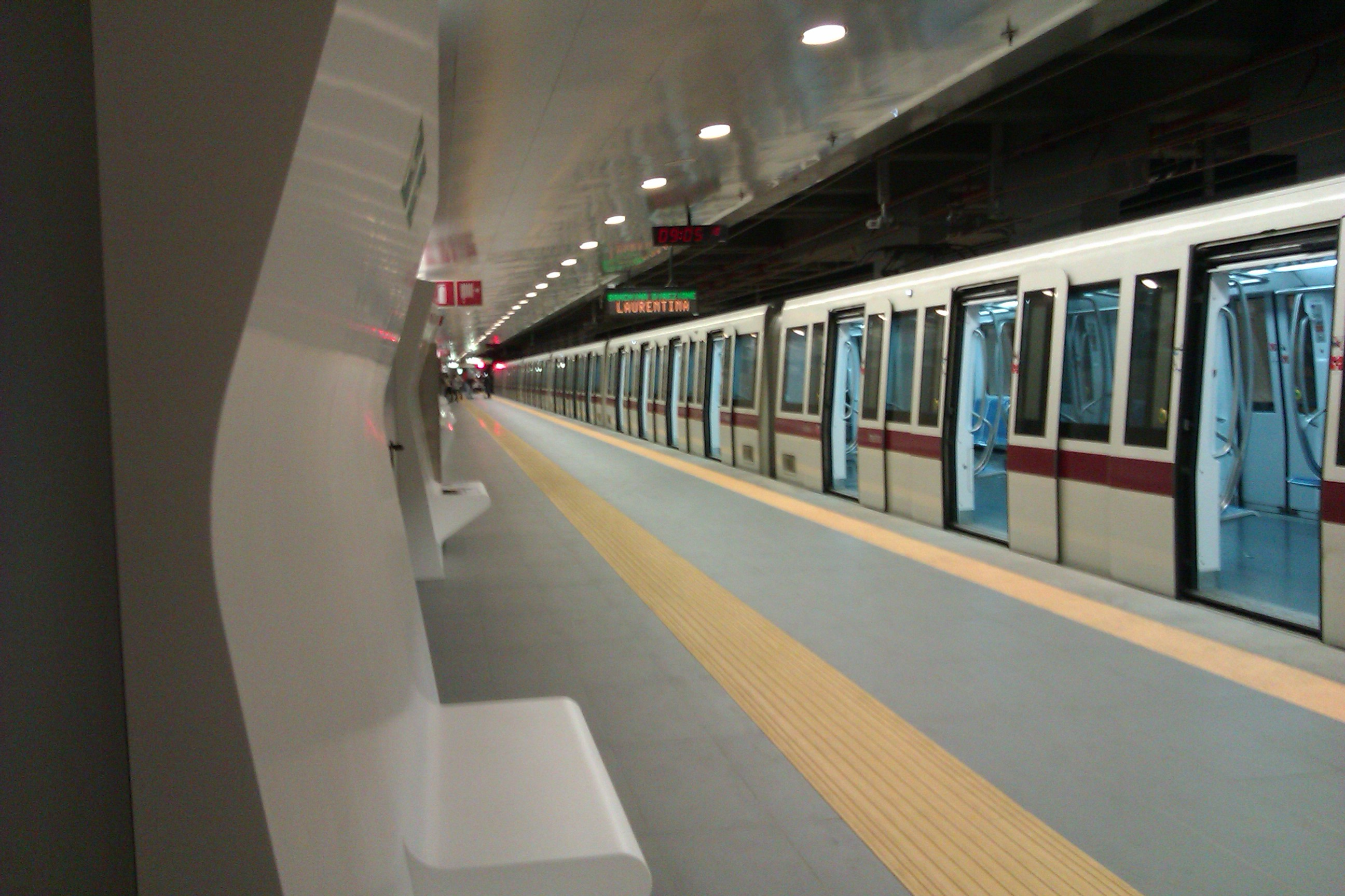 S/300 train into Conca d'Oro station, on platform 1